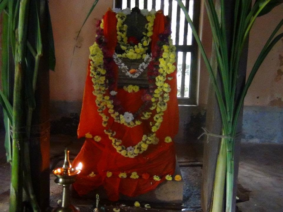 Brindavana (tomb) of bhuvanendra teertha, puthige matha